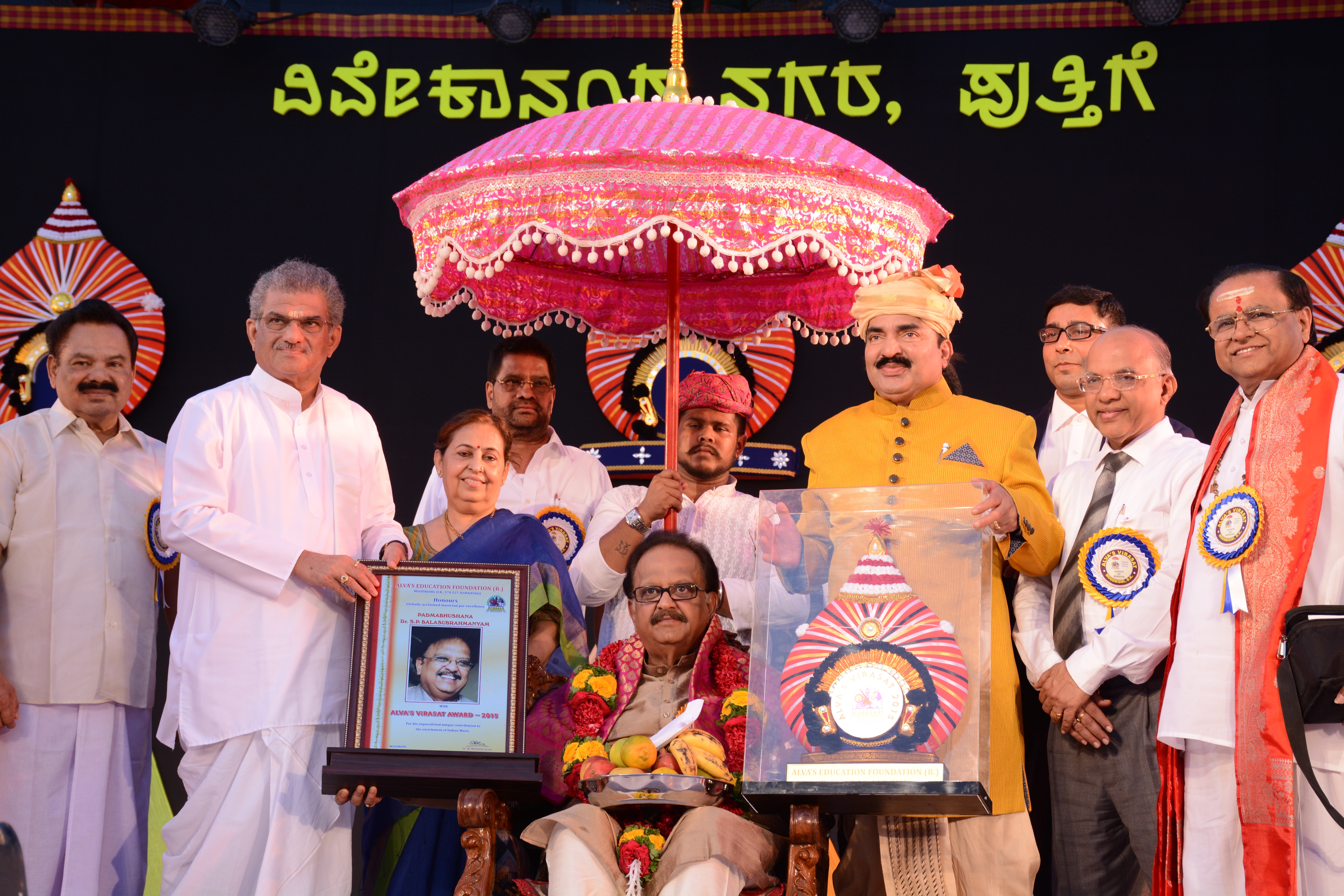 Photos taken during Alva's Virasat 2015 held at Smt. Vanajakshi K. Sripathi Bhat, Puthige, Moodbidri